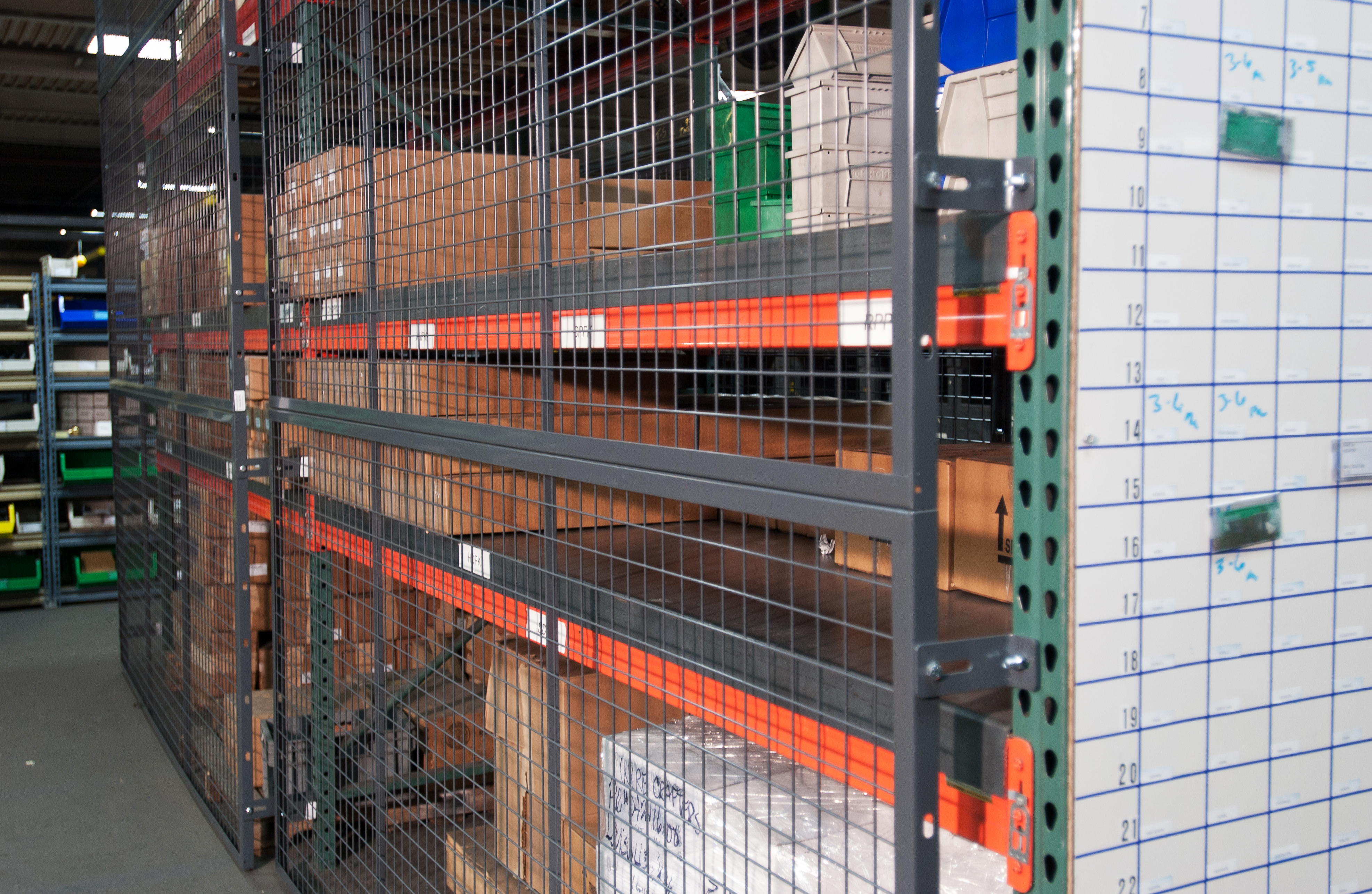 RackBack® Steel Mesh Containment Panels for Pallet Rack